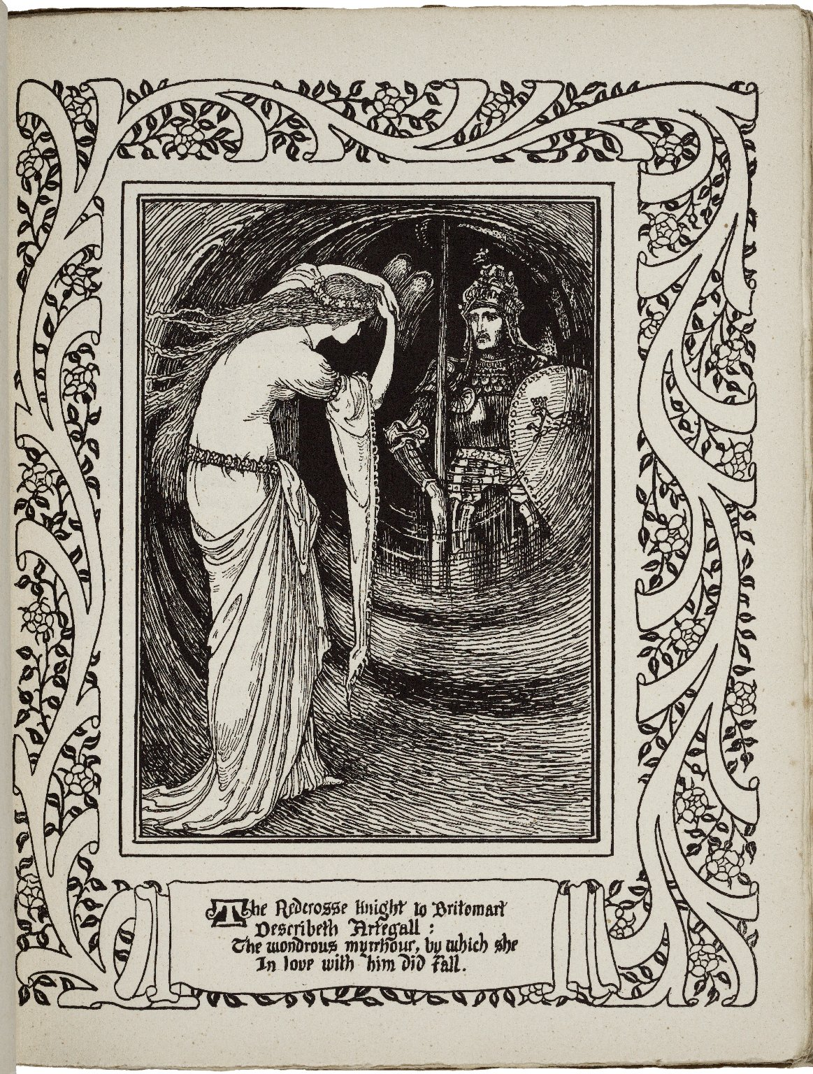 Book lll, Part Vll, before page 561of the 1895-1897 edition of Edmund Spenser's The Faerie Queene